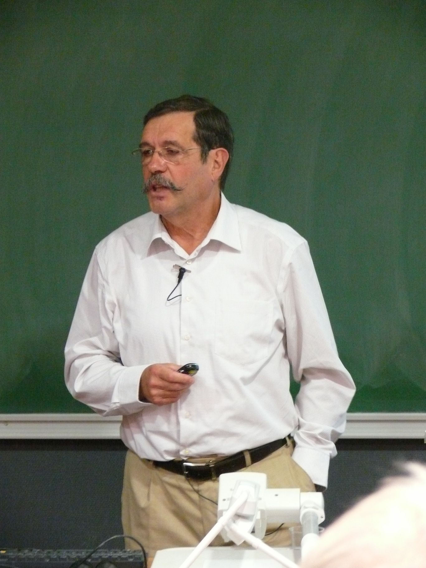 Alain Aspect during a conference at IUT A in Villeneuve-d'Ascq (Nord, France).